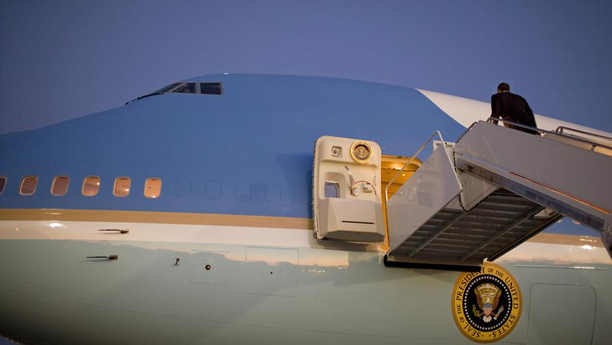 Barack Obama boarding Air Force One for his first flight as president February 5, 2009.